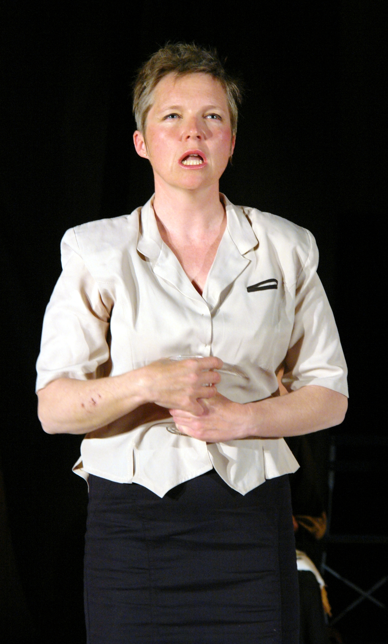 Play "Voices from Chernobyl: The Oral History of a Nuclear Disaster" from Svetlana Alexievitch, Geneva, April 25, 2009.